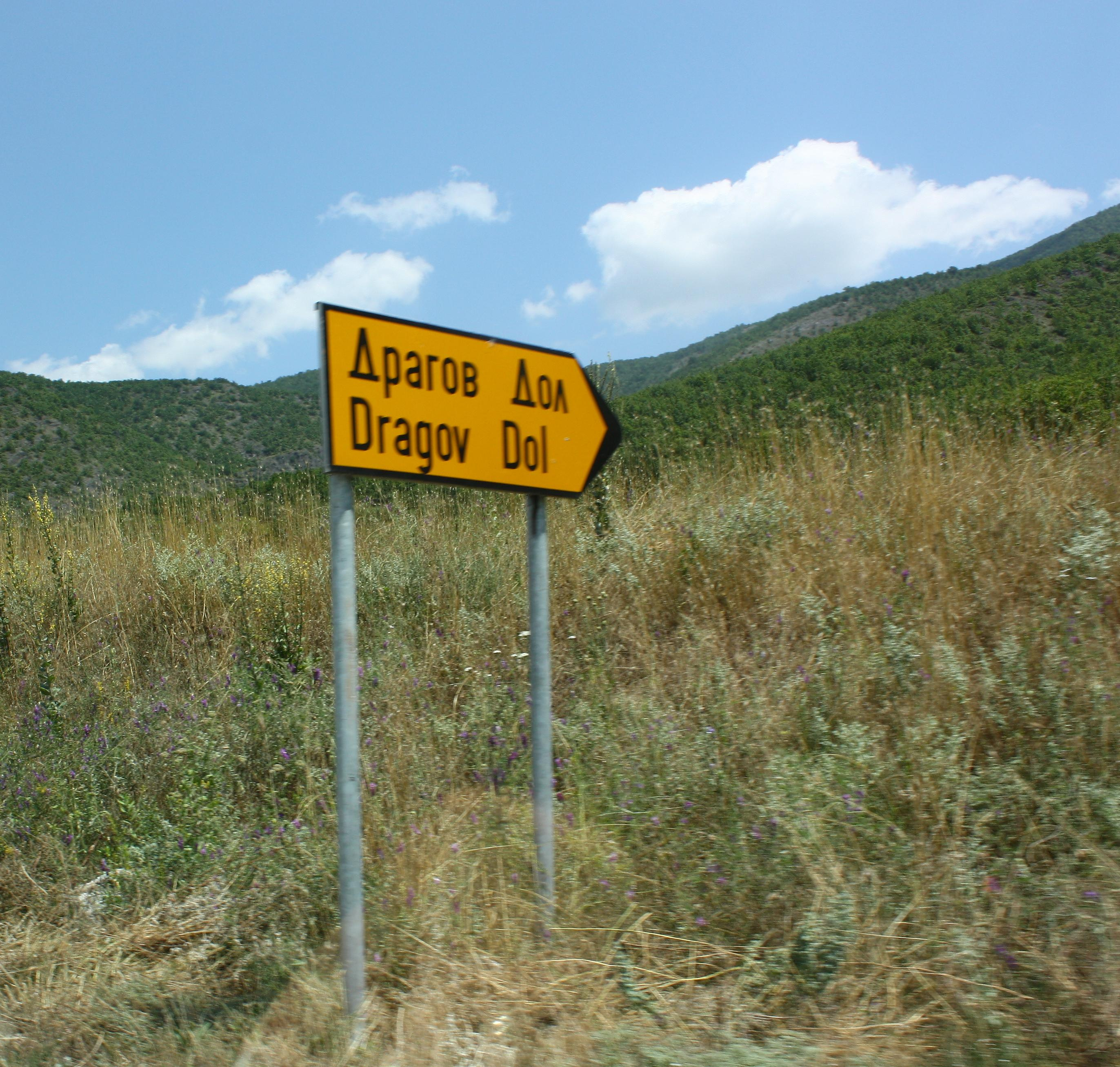 Dragov Dol, Macedonia